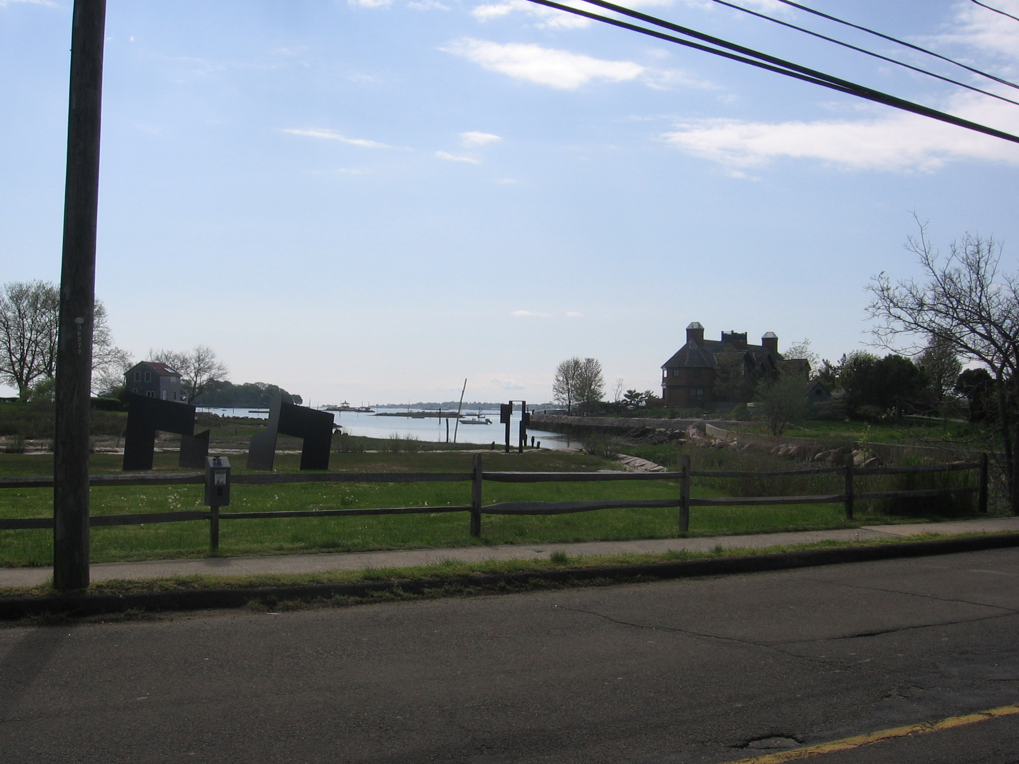 Black sculptures along an estuary at Stony Creek in Branford, Connecticut, USA. View looking west from Thimble Islands Road with some of the Thimble Islands visible in the distance.